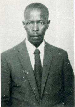 Photo of Joshua Pulumo Mohapeloa (1908-1982) - a prominent choral music composer in Sesotho, the native language of the BaSotho people of Southern Africa